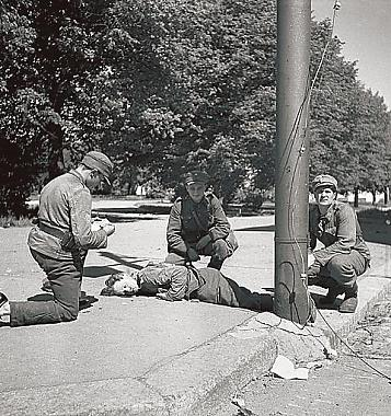 Medics give first aid to a soldier wounded in the battle for Vyborg in June 1944, as the Finns retreated from the Karelian Isthmus in the face of a huge Soviet artillery barrage and advance.